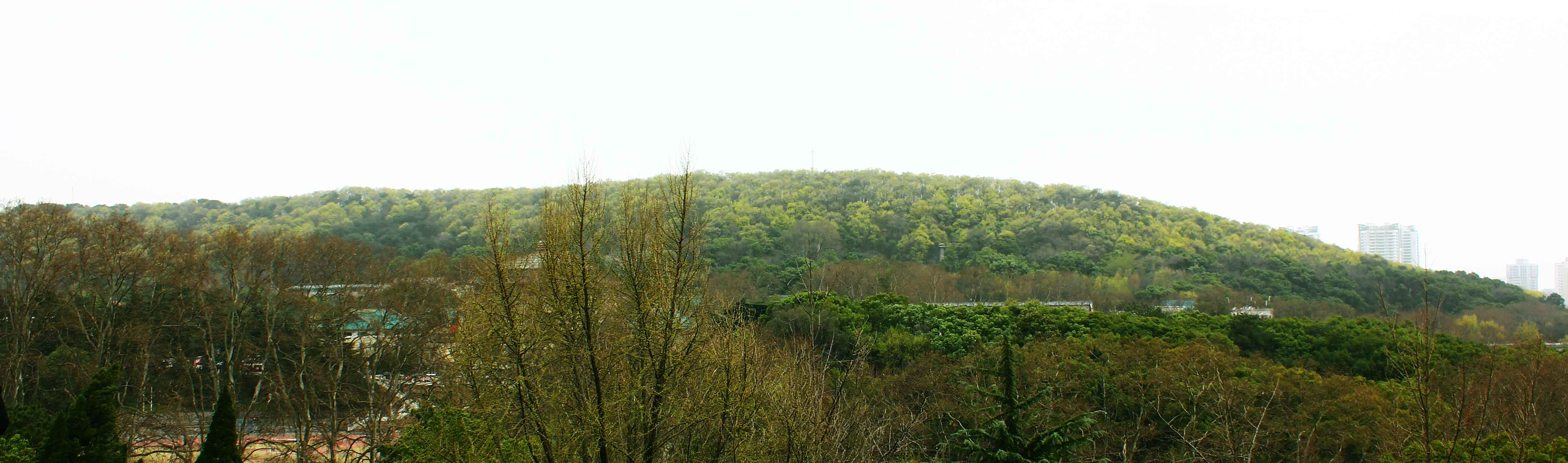 Luojia Shan in Wuhan